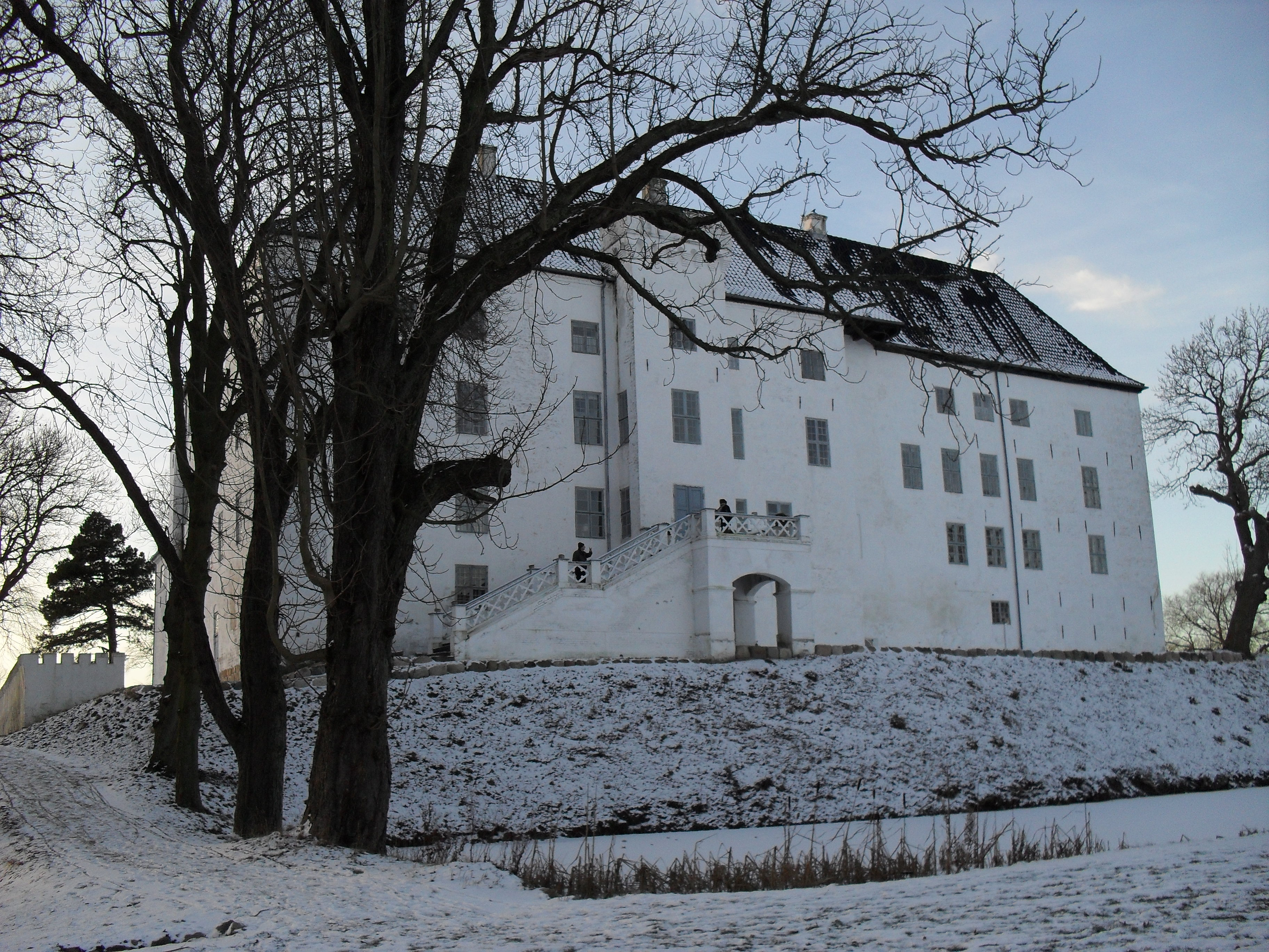 Dragsholm castle in Winter